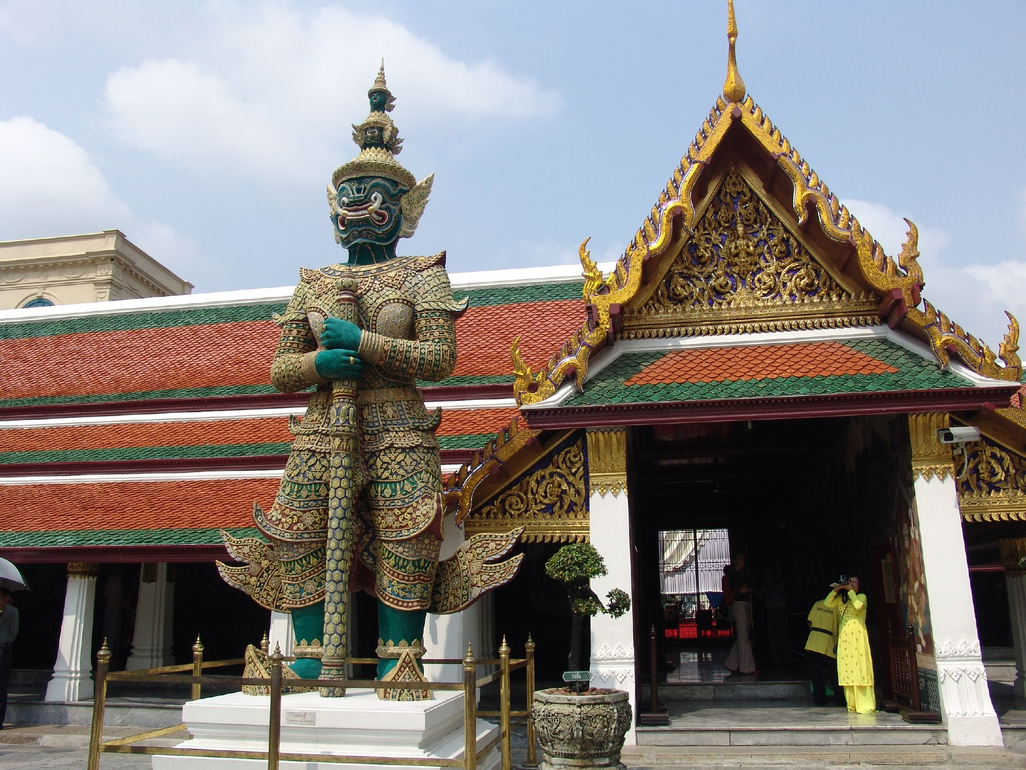 Guardian giant (Yaksha), this special one being called Thotsakan, character from the Thai Ramakian epic, within Wat Phra Kaeo in the Grand Palace of Bangkok, Thailand.